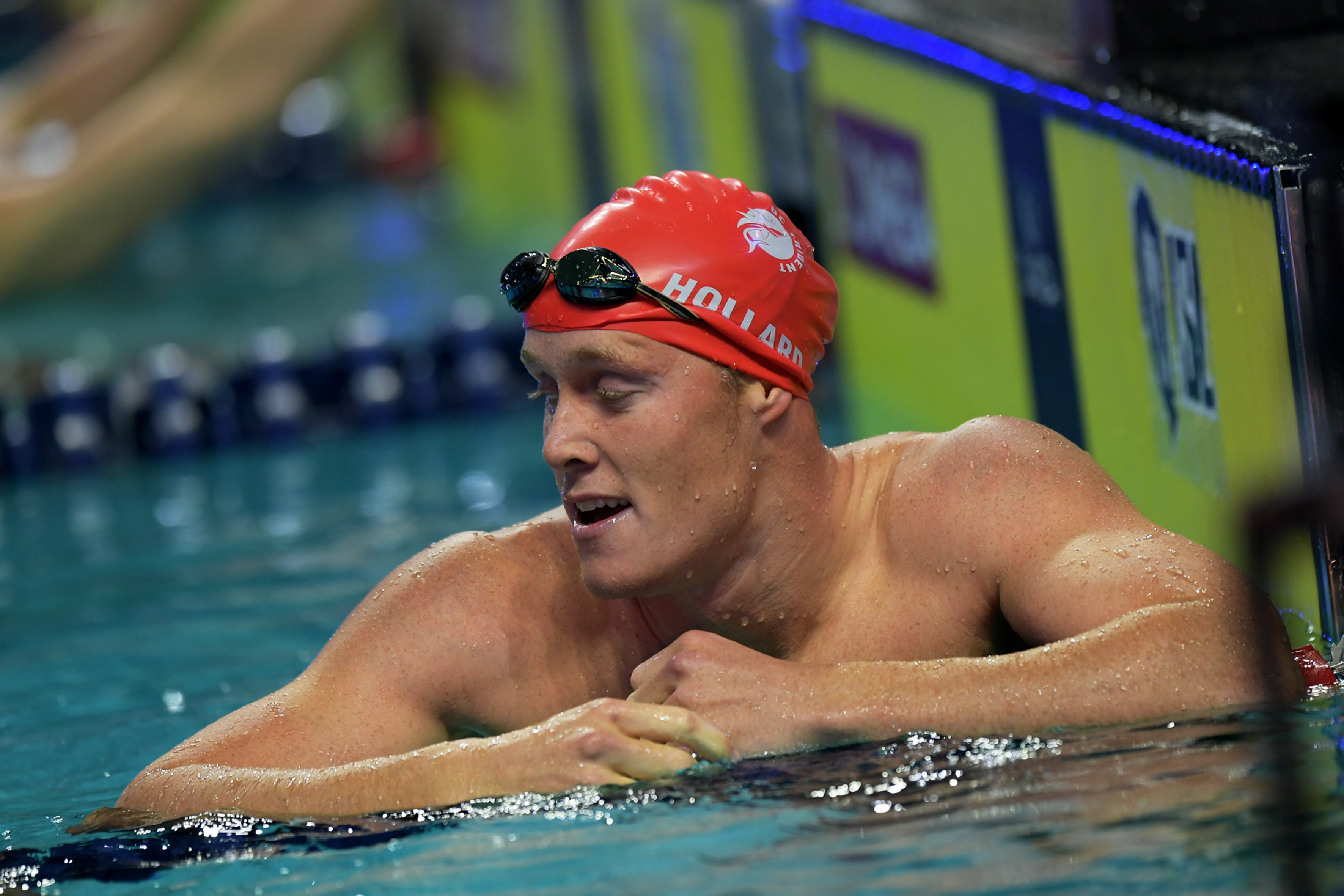 Tristan Hollard swimmer from DC Trident.